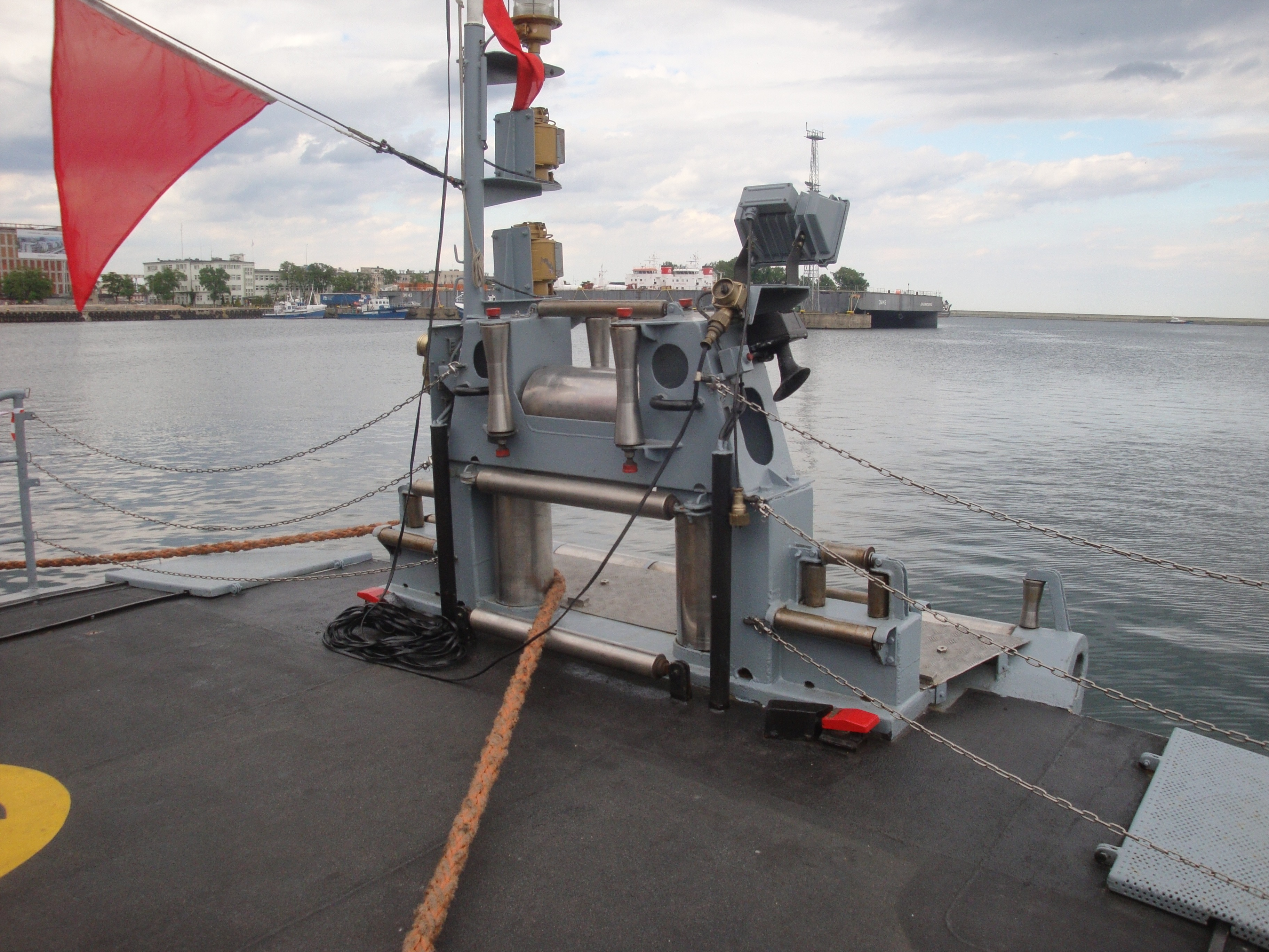 ORP Mewa - minesweeper of Polish Navy, Project 206F (Krogulec). Fairlead for sweep wires or cables.